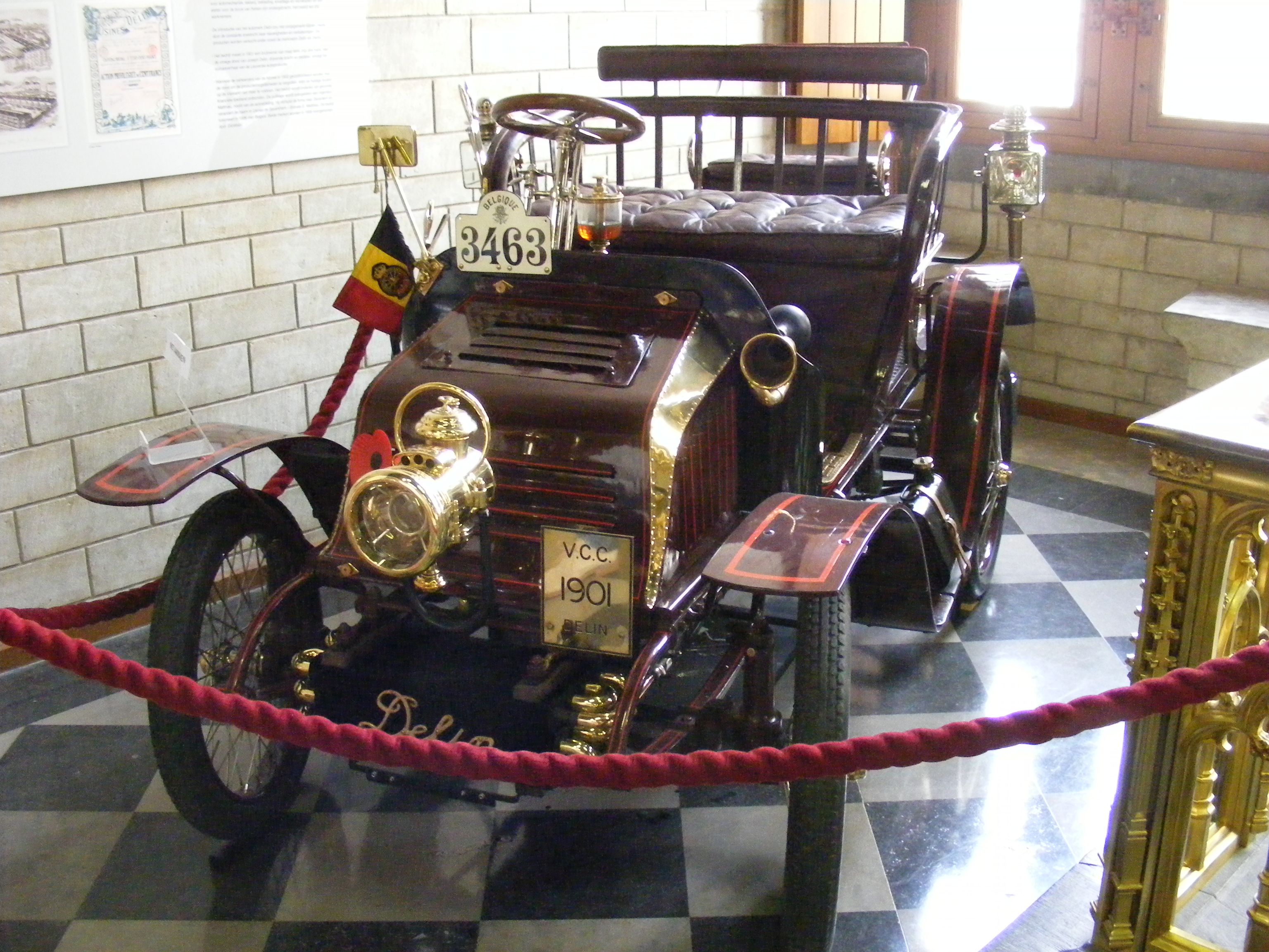 1901 Delin car made in Leuven (Louvain, Belgium). Pictured in City Hall of Leuven where the car was shown as part of their "Helden" (Heroes) exposition of the heritage of Leuven